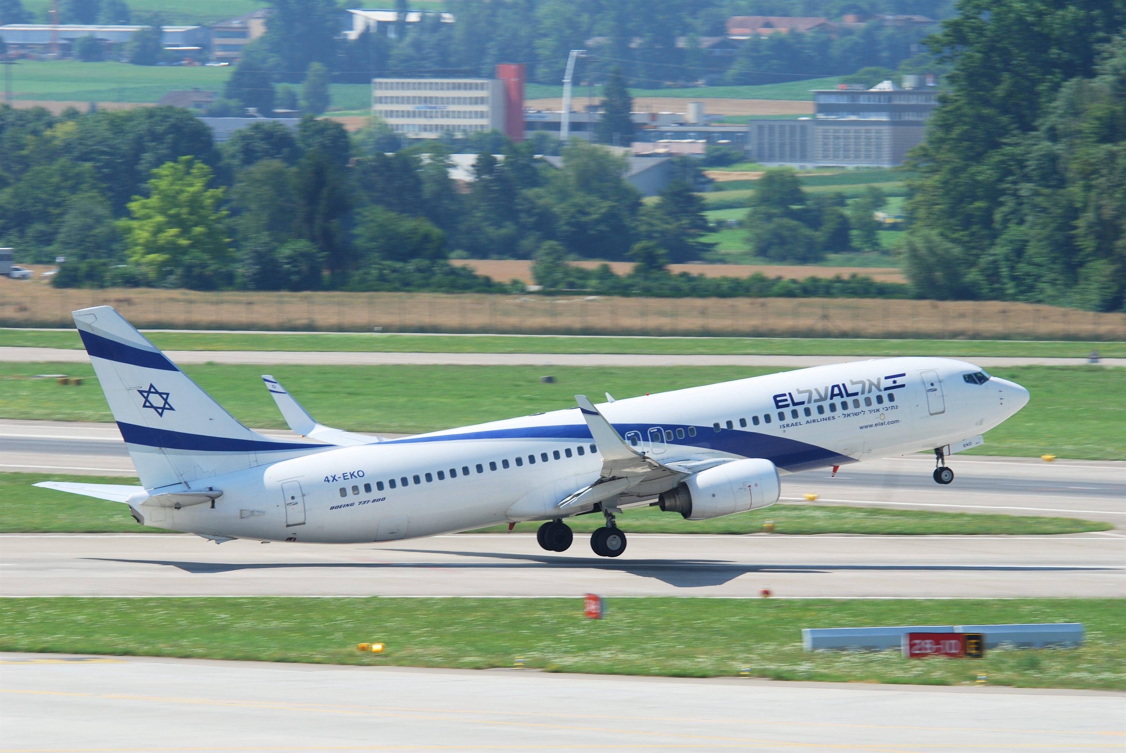 Departing as LY 348 to Tel Aviv...